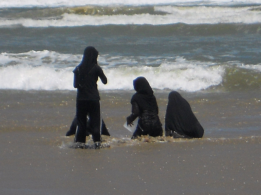 Used at and